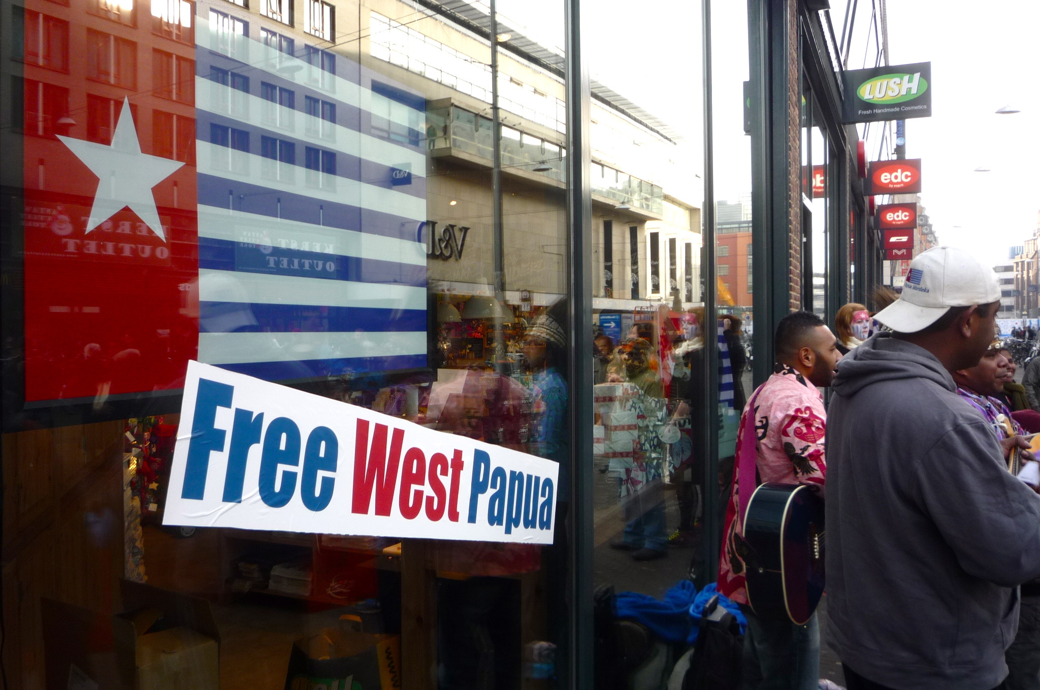 Lush Cosmetics Campaigns to End Genocide in West Papua